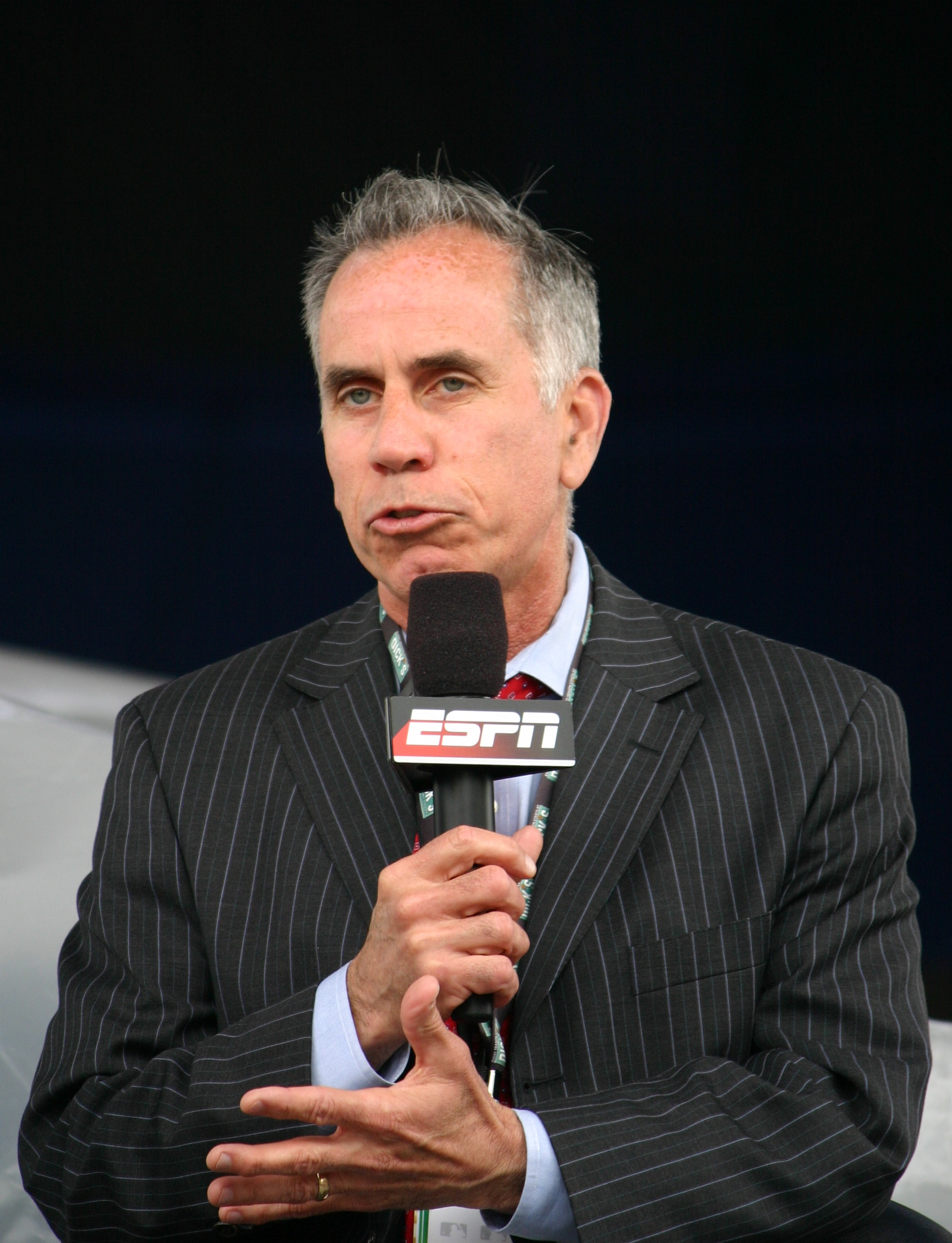 Tim Kurkjian interviewing baseball legends at the Sorcerer's Hat Stage on Friday, March 4, 2011 as part of ESPN the Weekend